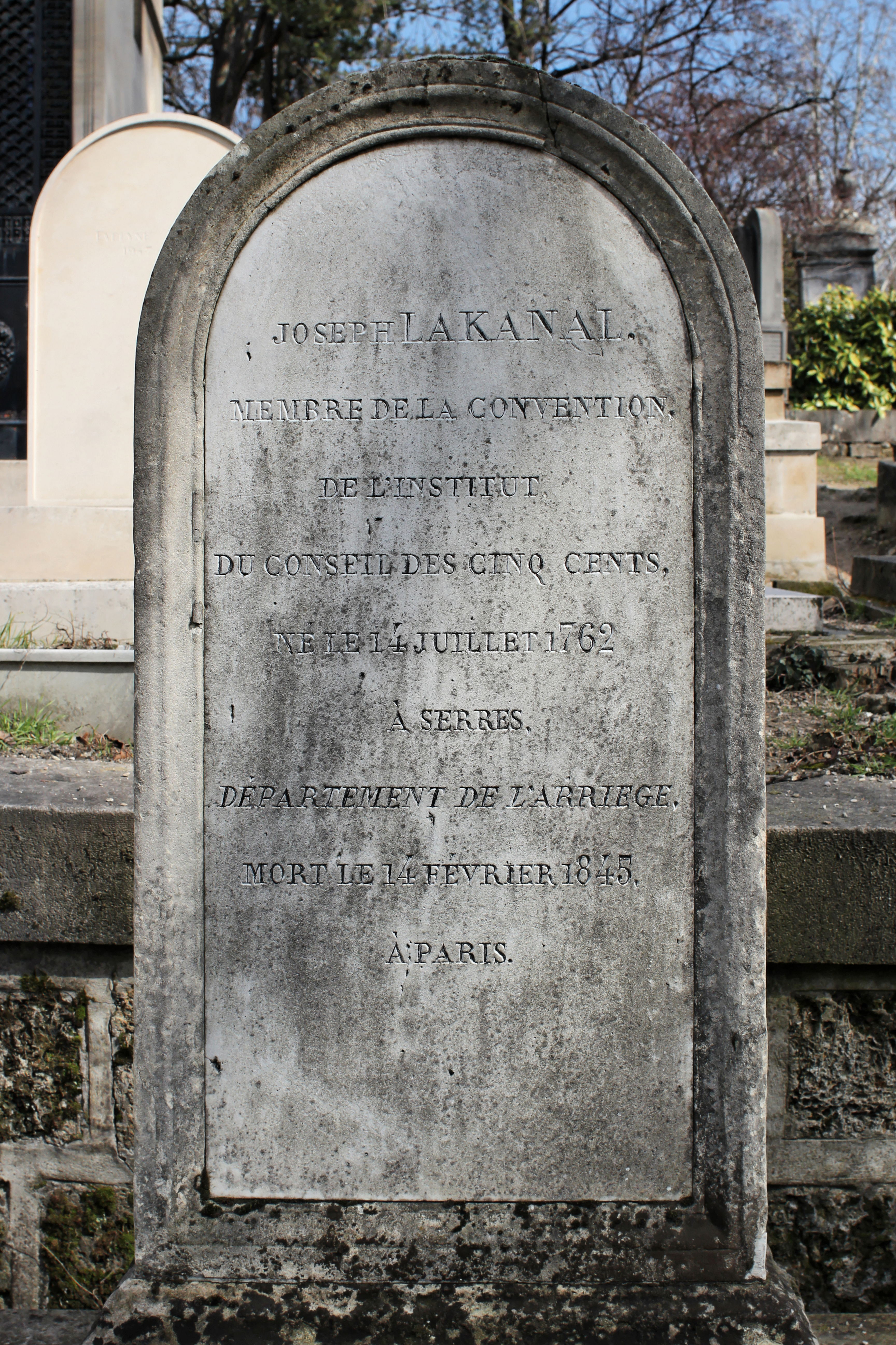 Stone.